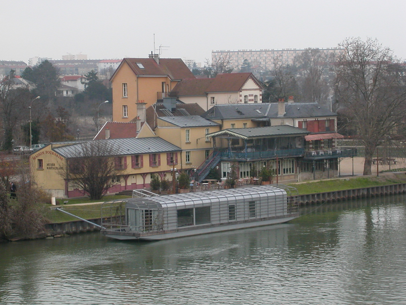 Maison Fournaise, Chatou, Yvelines